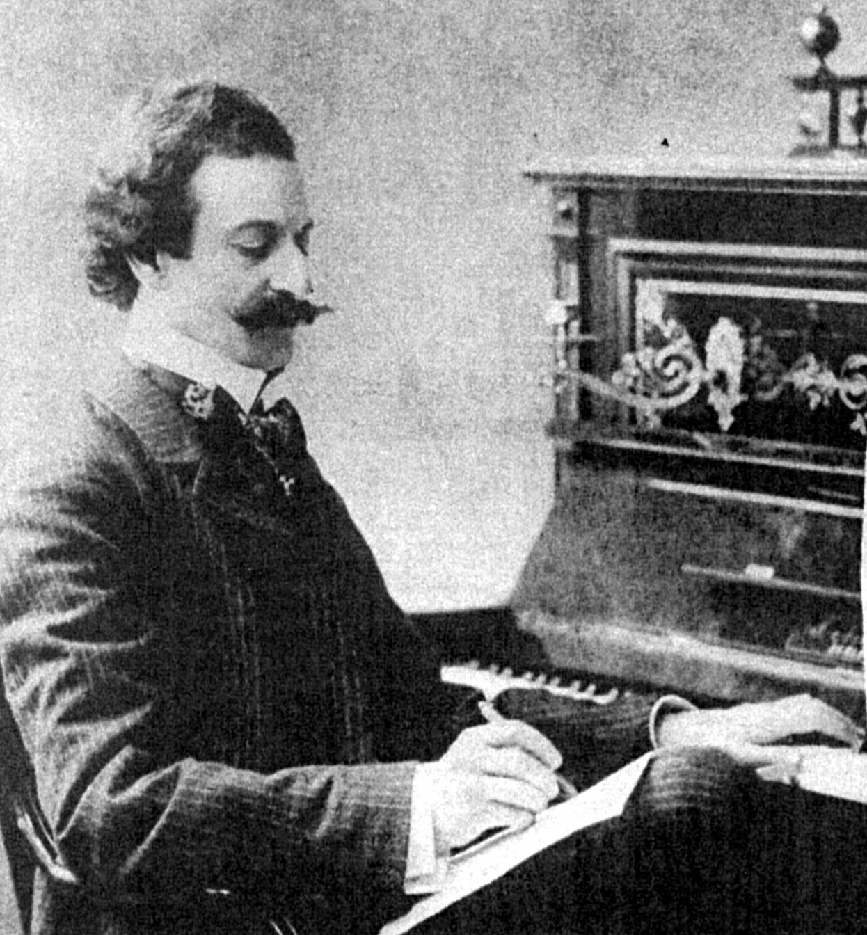 Oscar Straus at the piano; picture is part of a music sheet. Berlin, about 1902